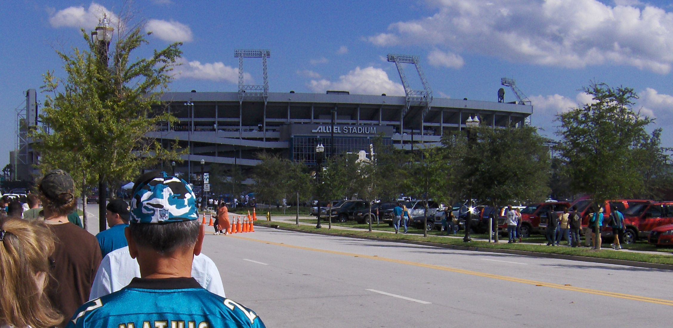 Walking from the parking lot to the stadium. (EverBank Field}